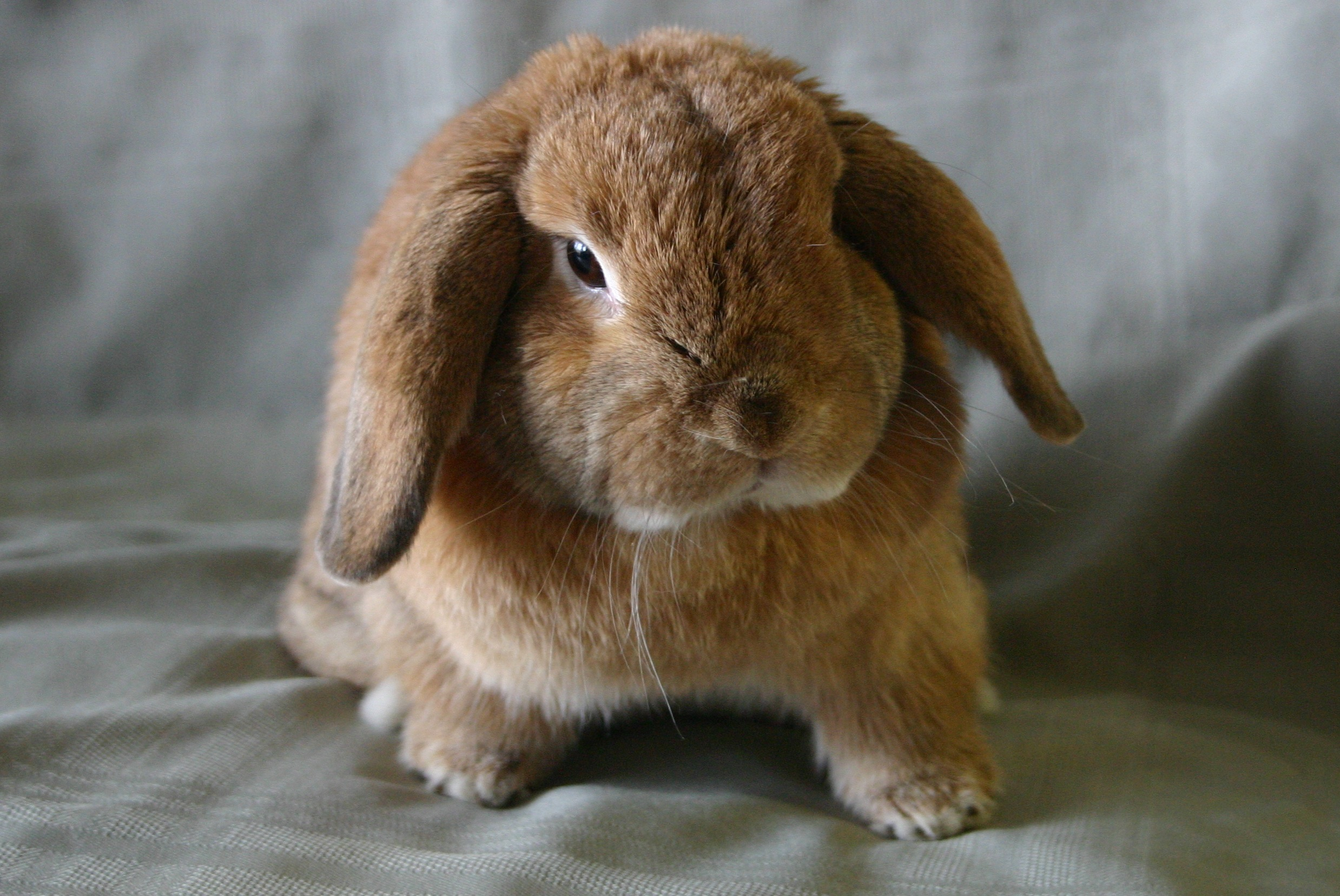 A three-year-old holland lop.